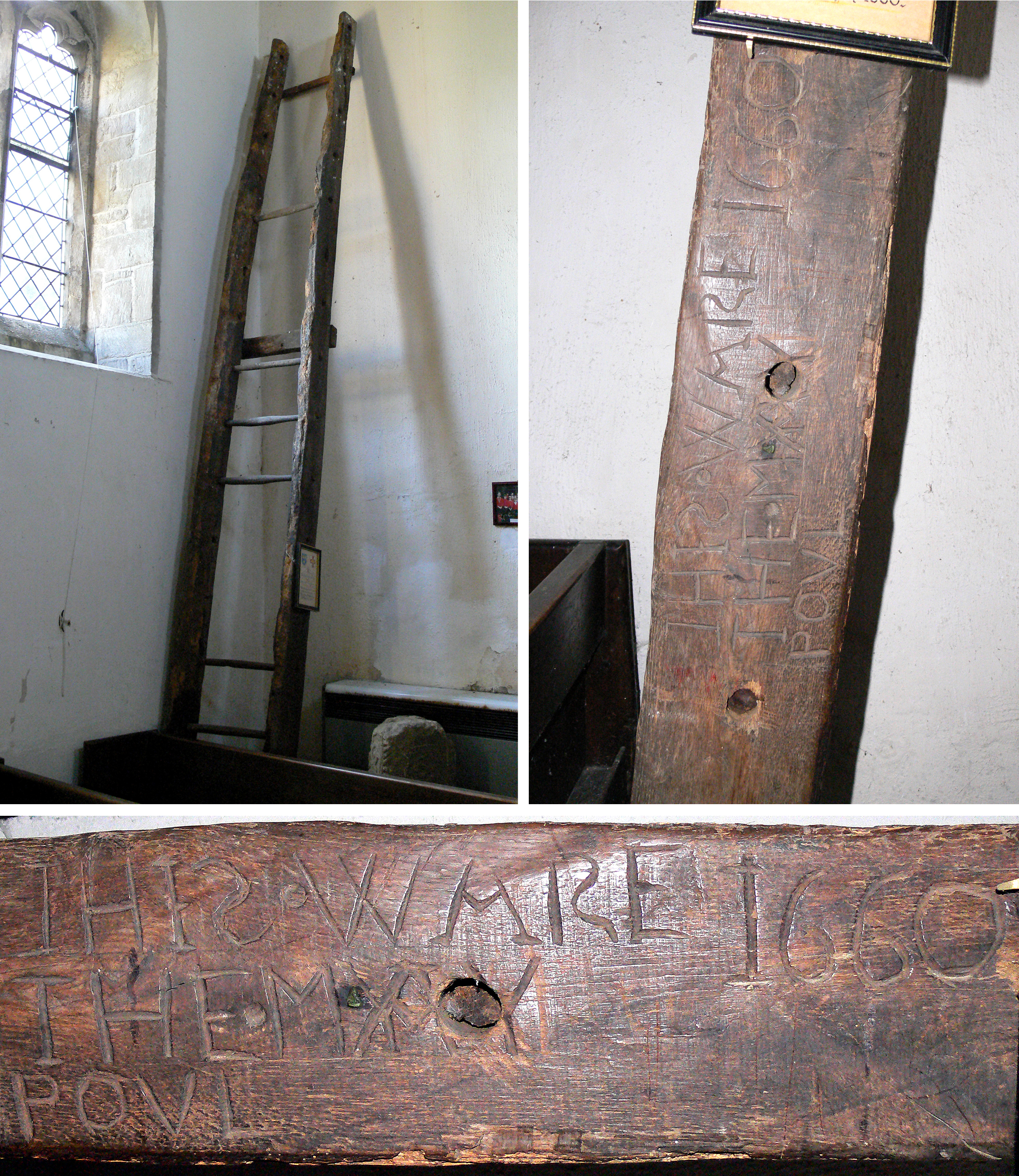 Carved inscription on old ladder in St James' church, Castle Bytham, Lincolnshire, which reads "THIS WARE THE MAY POVL 1660", suggesting that a maypole was set up in the village to celebrate the restoration of the Monarchy